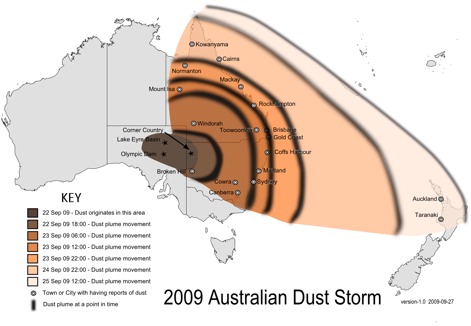 2009 Australia Dust Storm - Map of Australia and New Zealand - showing movement of dust plume and dust affected areas